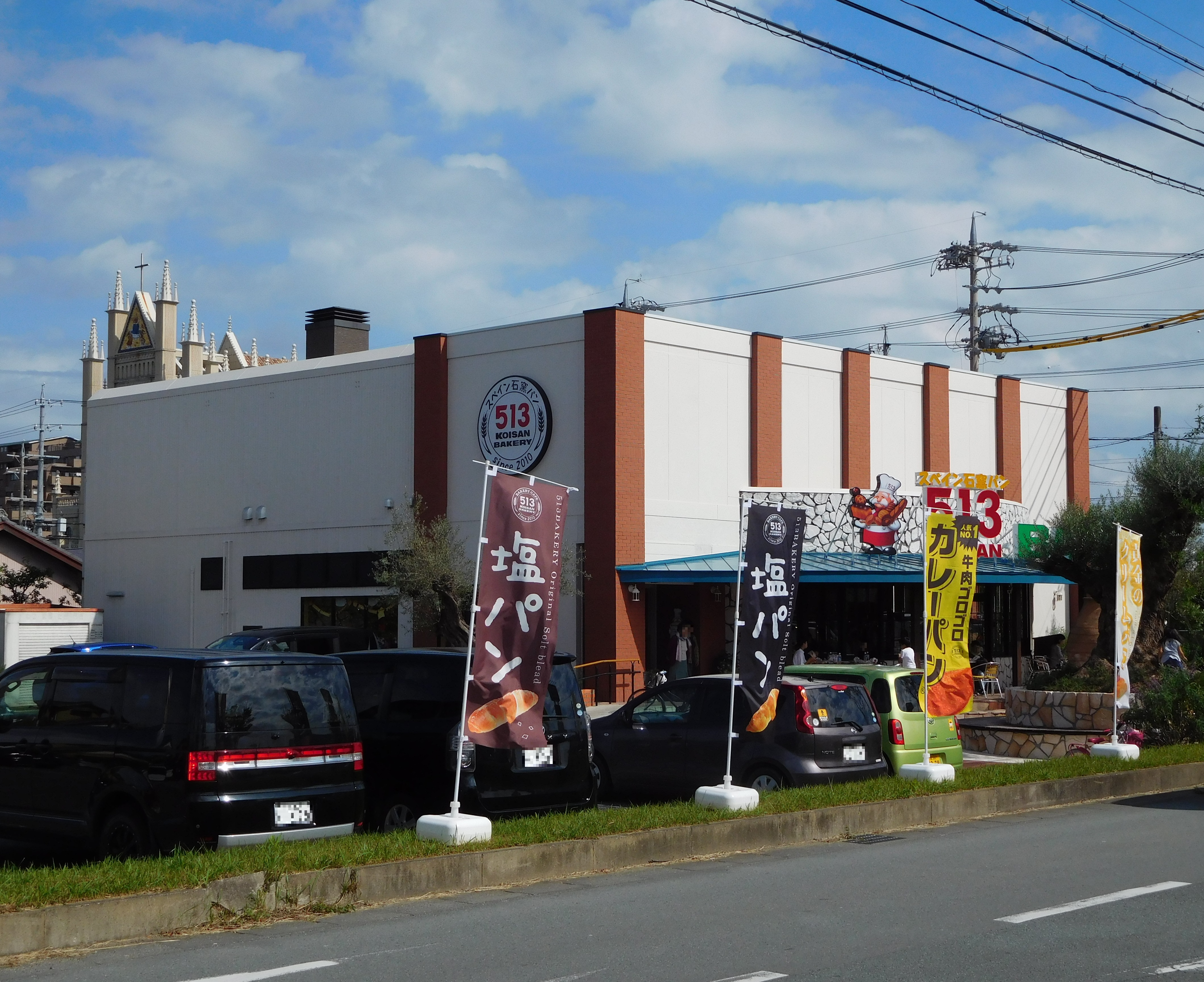 This is the 513BAKERY Mie-Matsusaka-Kawaicho Shop in Matsusaka, Mie, Japan.